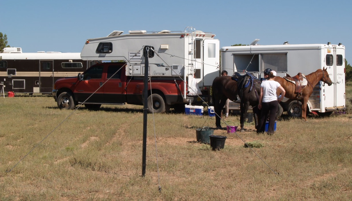 Horse tied on a temporary high line that is anchored on one end by a horse trailer and on the other by a pole with guy wires.